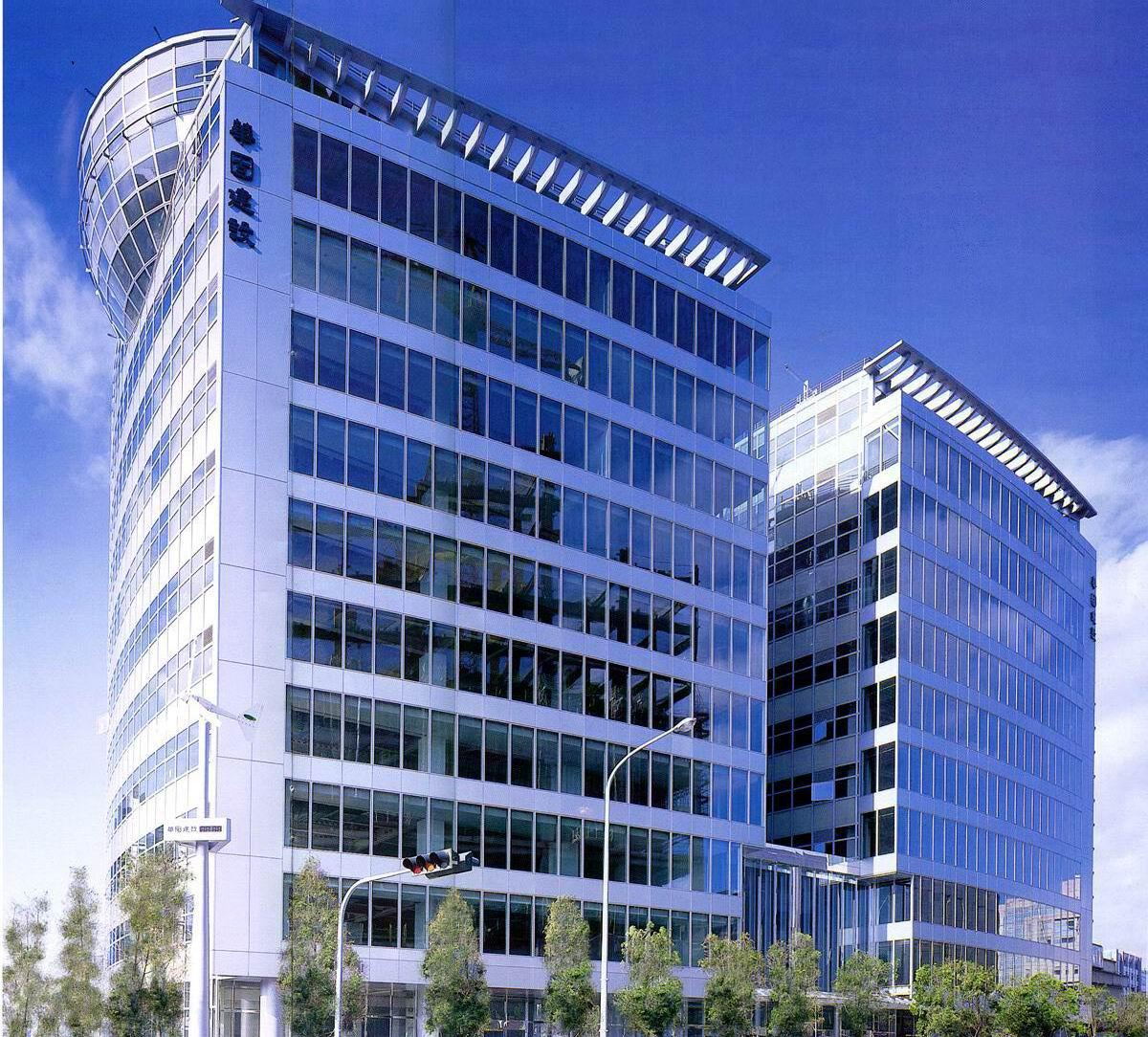 E-Park Office Tower was built using the Airloop Principle for building curtain walls.